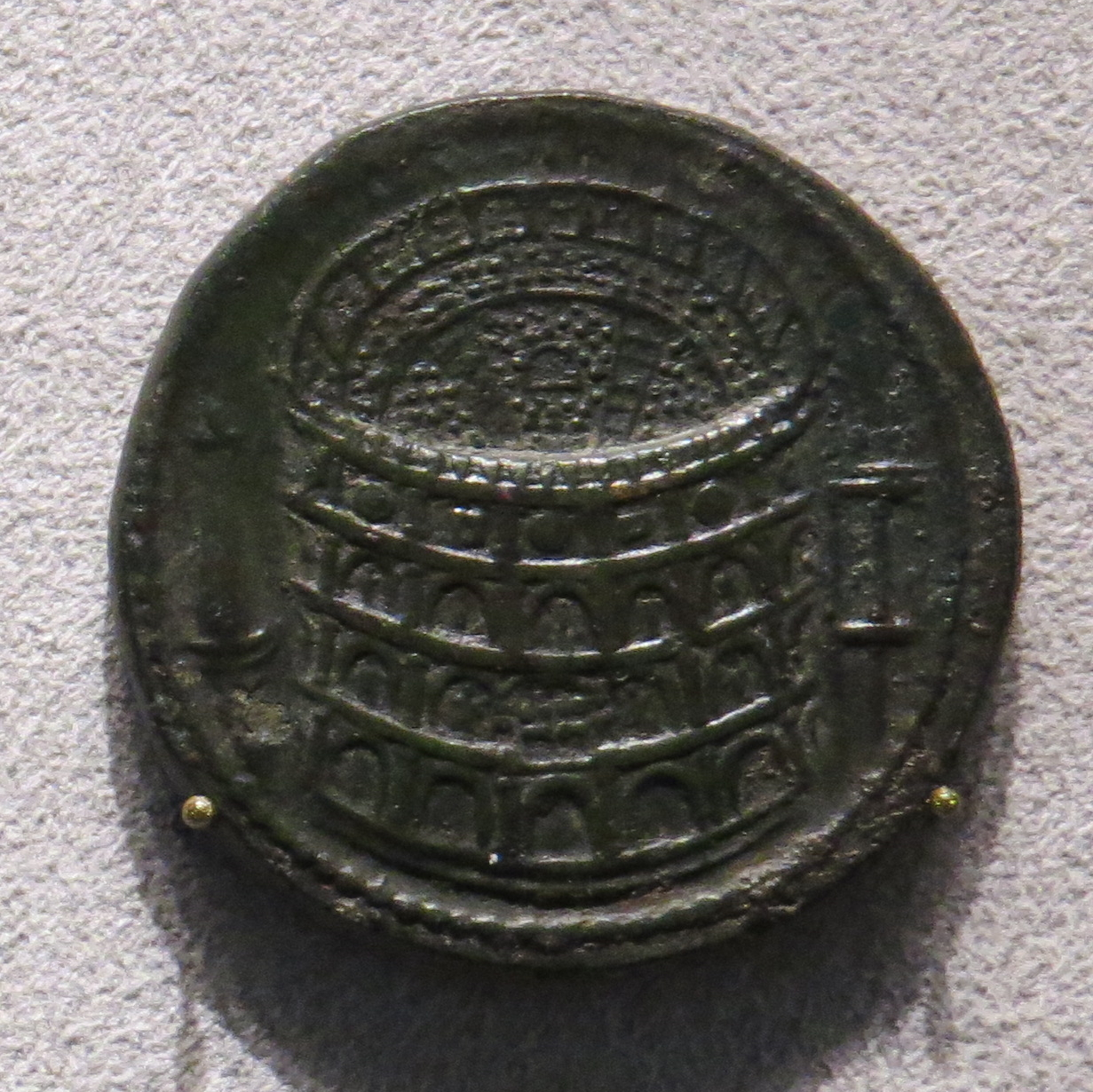 Sestertius of Titus celebrating the inauguration of the Colosseum, minted in 80 AD[1] (Altes Museum, Berlin). ↑ Sear, David R. (2000). Roman Coins and Their Values - The Millennium Edition. Volume I: The Republic and The Twelve Caesars, 280BC-AD96 (pp. 468-469, coin # 2536). London: Spink. ISBN 1 902040 35 X